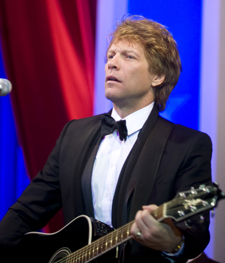 Jon Bon Jovi performs at the Commander in Chief's Ball at the National Building Museum, Washington, D.C., Jan. 20, 2009.